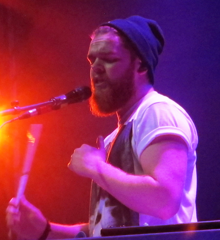 Jack Garratt in Chicago at Park West, 13 October 2015